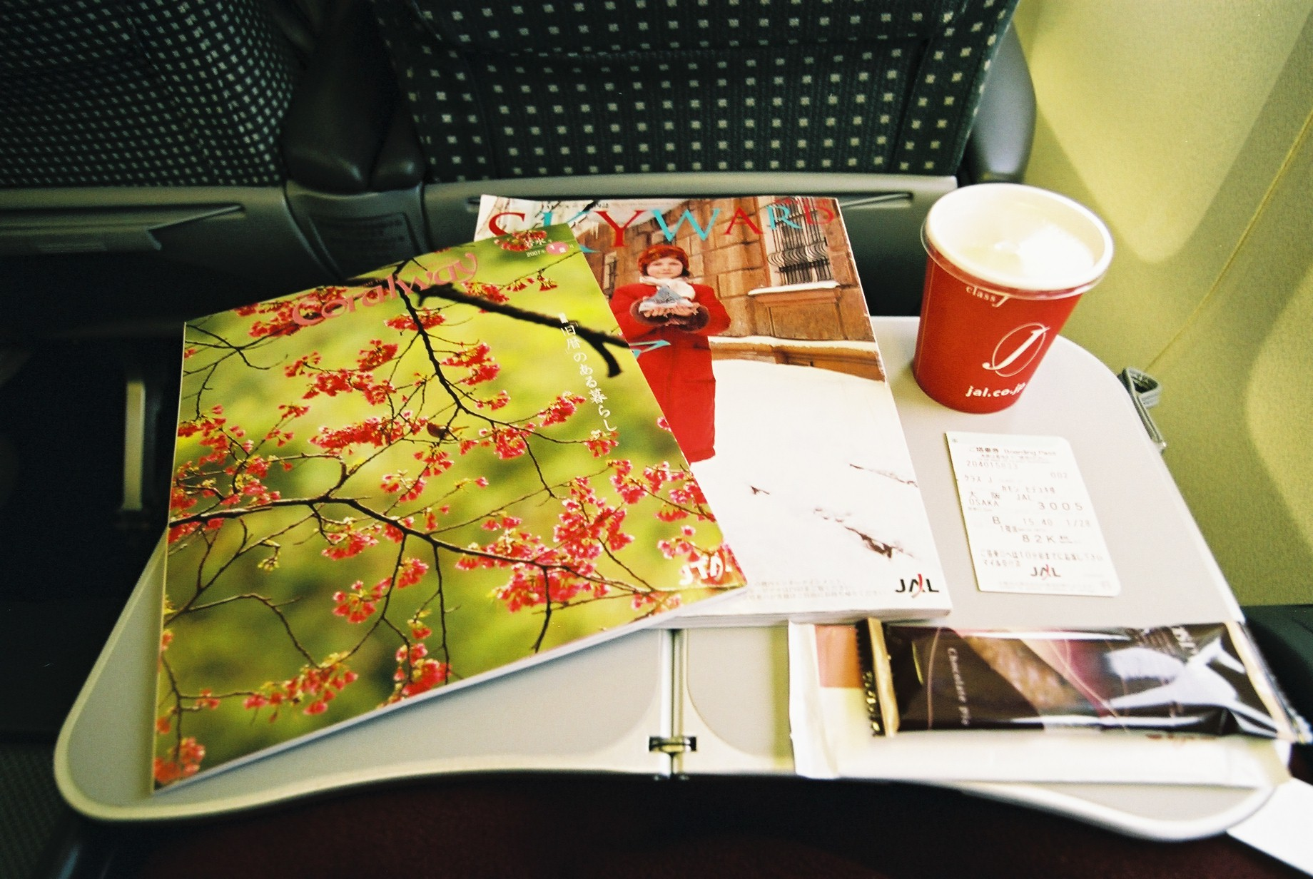 (2007/01/28 In Flight, JL3005, JAPAN) /* Flight Data */ Airline: JAL Express (JC/JEX) Airplane: Boeing 737-446 (JA8994) Flight No.: JL3005 [Japan Airlines International (JL/JAL)] From: Narita International Airport (NRT/RJAA) To: Osaka International Airport (ITM/RJOO) Seat No.: 82K Class: Class J [Shuttle Roundtrip Fare]